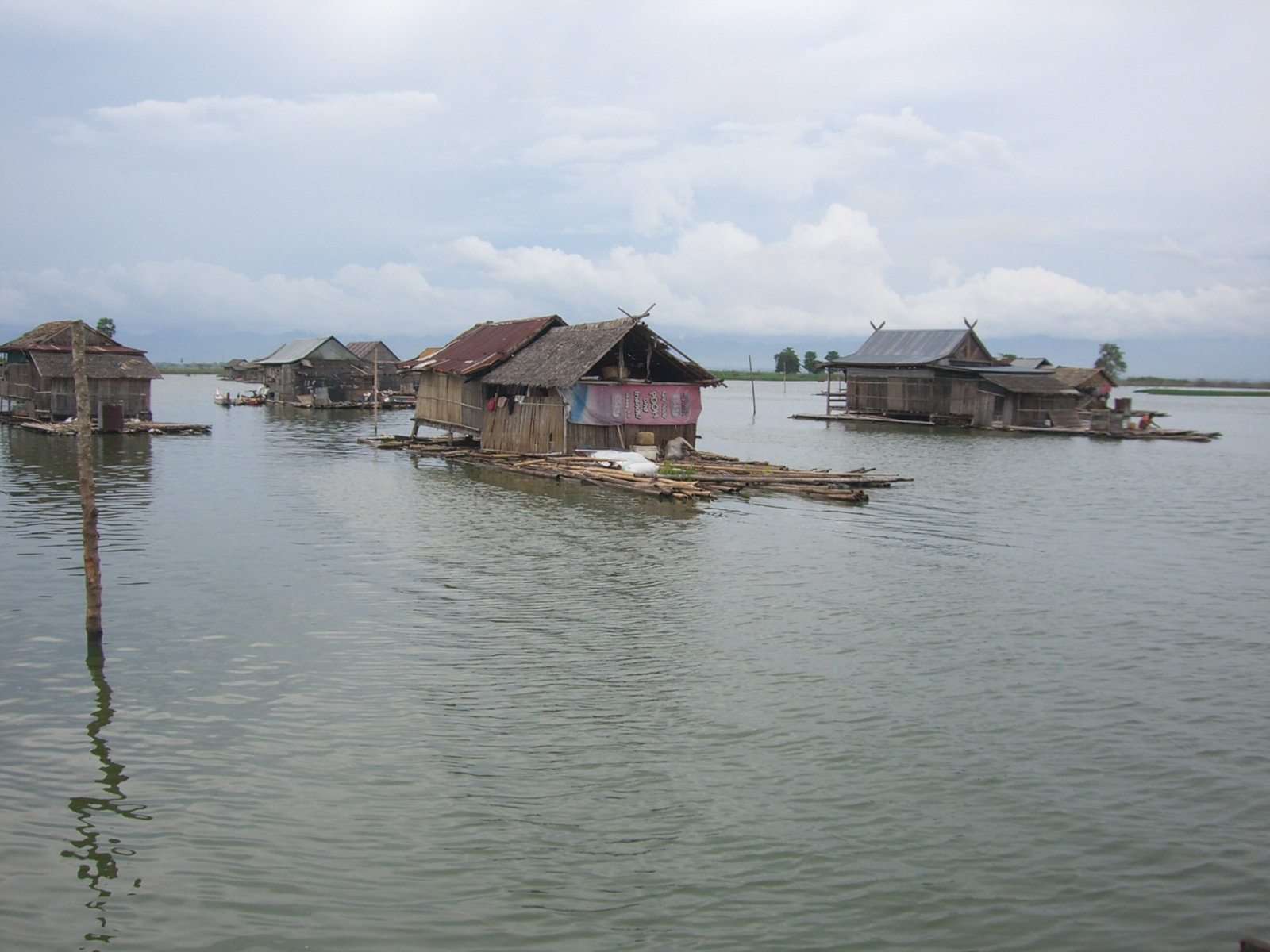 Sengkang's Floating Village scenery, Lake Tempe, South Sulawesi